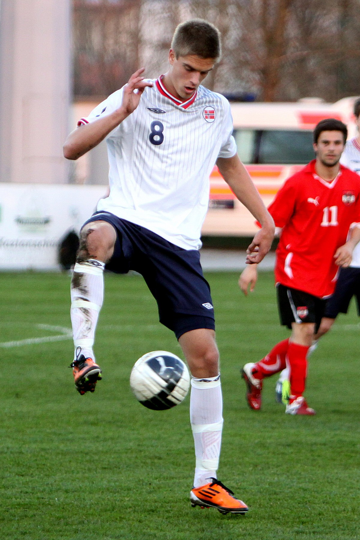 Markus Henriksen (Rosenborg Trondheim) in the Norway national under-21 football team, 2011-03-29